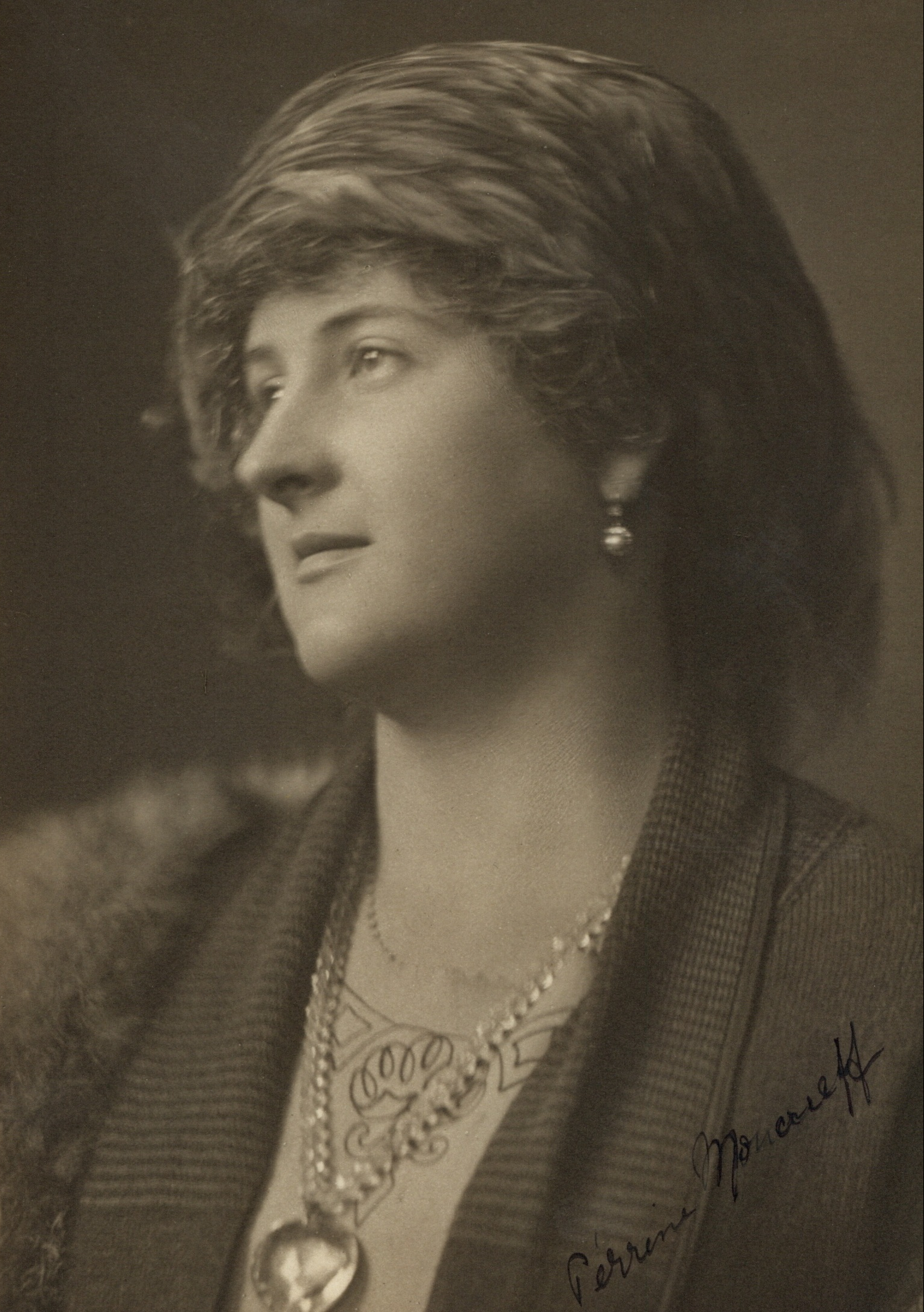 Ornithologist and national park founder Perrine Moncrieff was a shining star in the conservation field. English aristocrat Perrine and her husband Malcolm migrated to New Zealand after the First World War and settled in Nelson. They loved the natural beauty and the fauna and flora and Perrine enjoyed tramping and observing native birds. A passionate bird-lover who wrote a valuable field guide on the subject in 1925, Perrine had a particular horror of the practice of birds being killed so their feathers could adorn women's hats. When she was elected vice-president of the New Zealand Native Bird Protection Society in 1927 her speech "Birds in Relation to Women" condemned this practice. She had a hat made of white hens' feathers dyed sapphire blue to demonstrate that feathers could be obtained without killing native birds. This studio photograph of Perrine in a hat could be the very one in question. Her conservation achievements were huge, her most notable success was the creation of Abel Tasman National Park in 1942 but she was involved in many other successful campaigns including the establishment of Lake Rotoroa scenic reserve and Farewell Spit bird sanctuary. But, she is perhaps best remembered as the "bird woman" a familiar figure around Nelson together with her pet macaw, Miss Micawber. Newspaper Clipping About Bush and Bird Notes - [Photo of Perrine Moncrieff] Archives reference: ABWN 8879 W5280 Box 8/ 017.07 For more information use our “ask an archivist” link on our website: Material from Archives New Zealand Te Rua Mahara o te Kāwanatanga